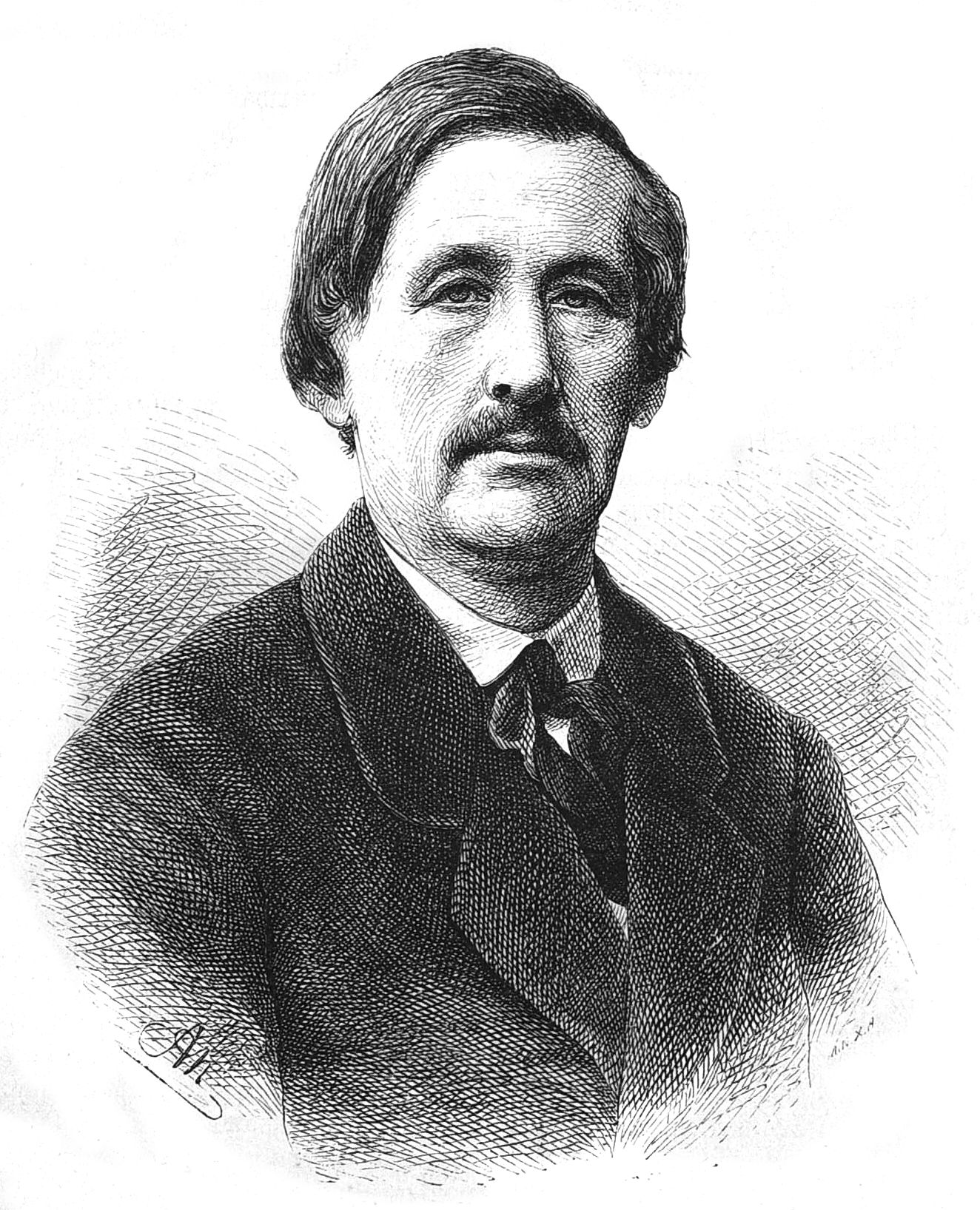 caption: "Friedrich Kreyssig. Nach einer Photographie auf Holz gezeichnet von Adolf Neumann."